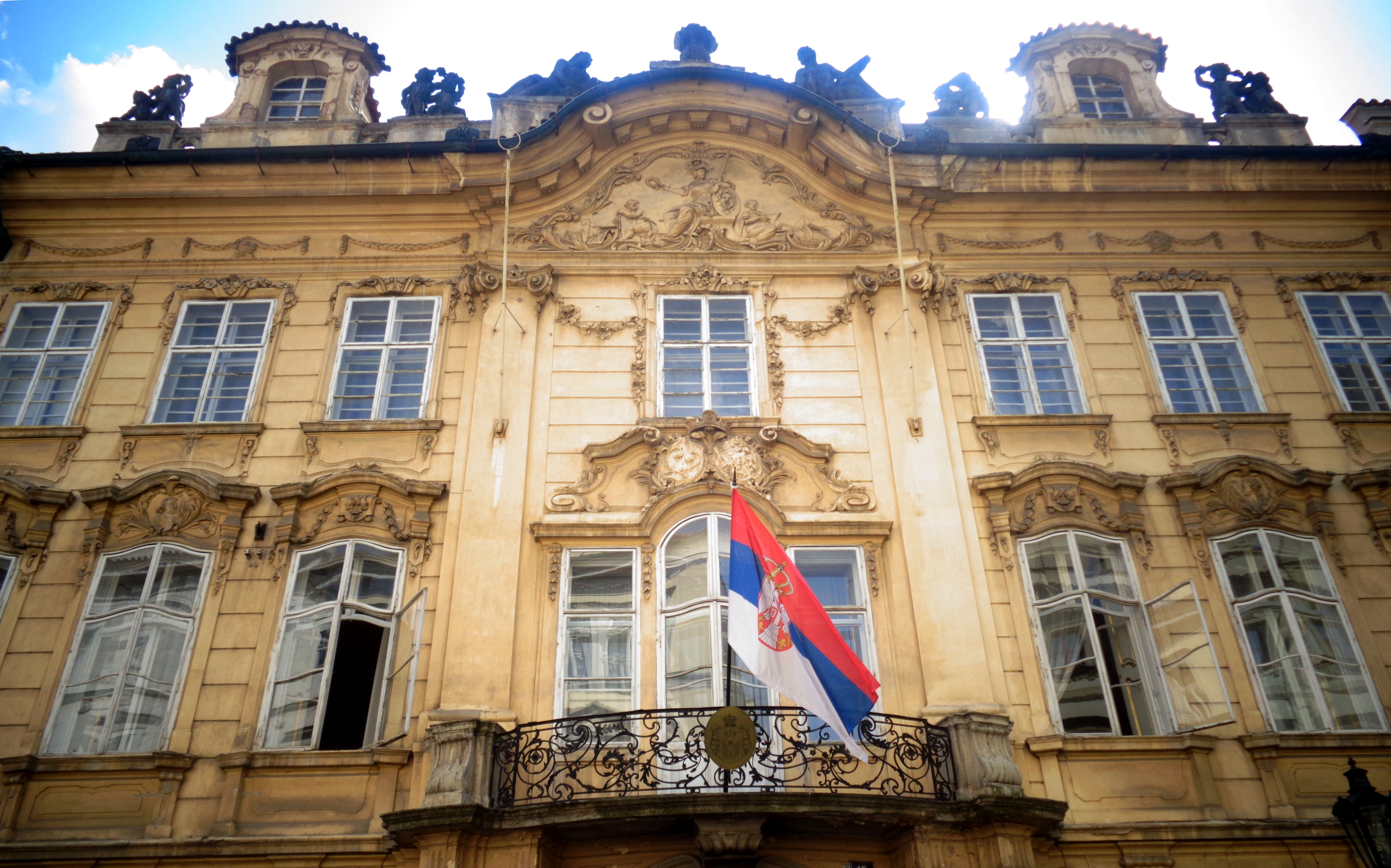 Embassy of Serbia to the Czech Republic, Prague, Mostecká 277/15